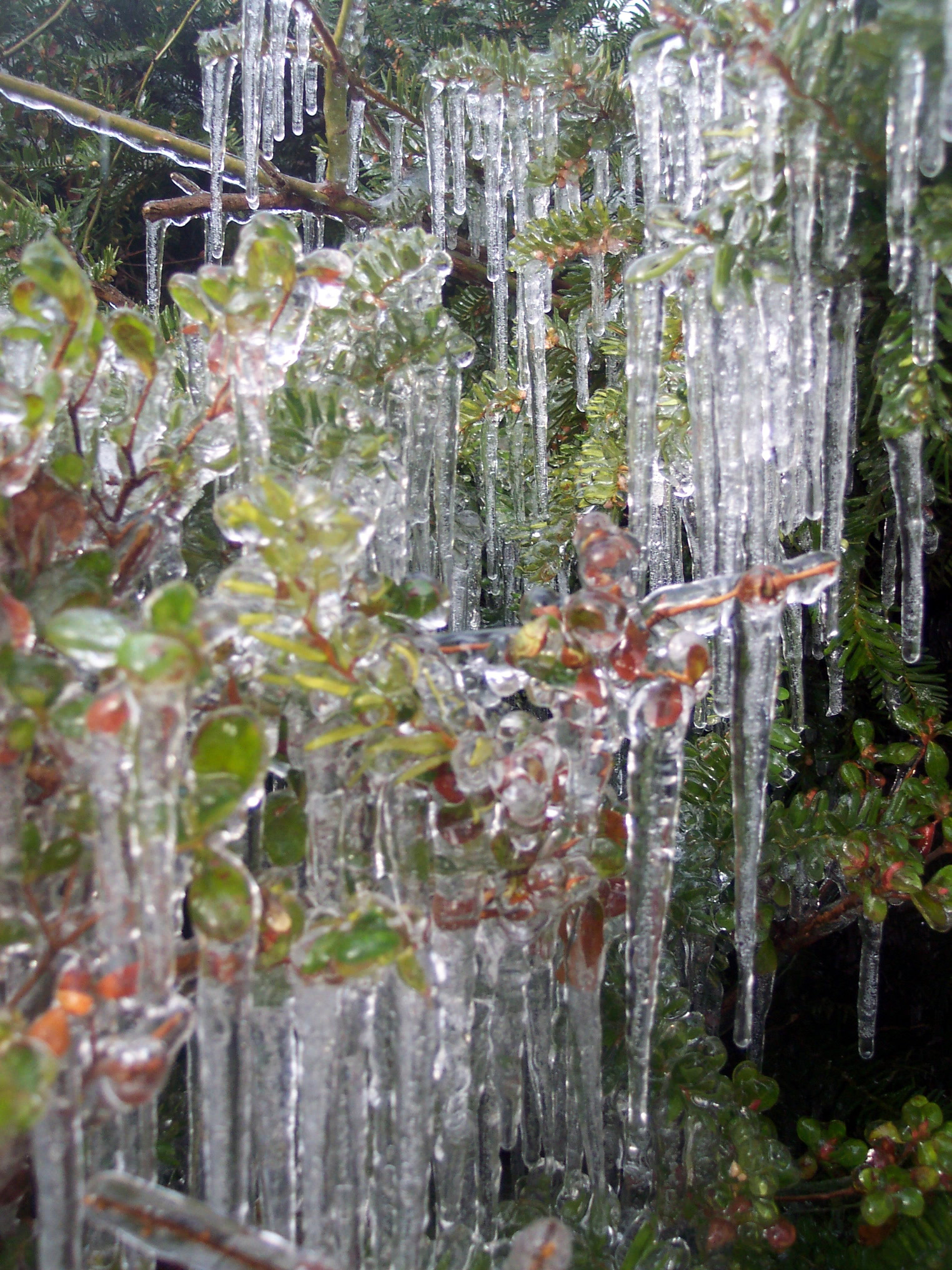 Photo of a mass of icicles forming on an azelea bush. The ice was the result of water from melted snow landing on the bush and then refreezing.